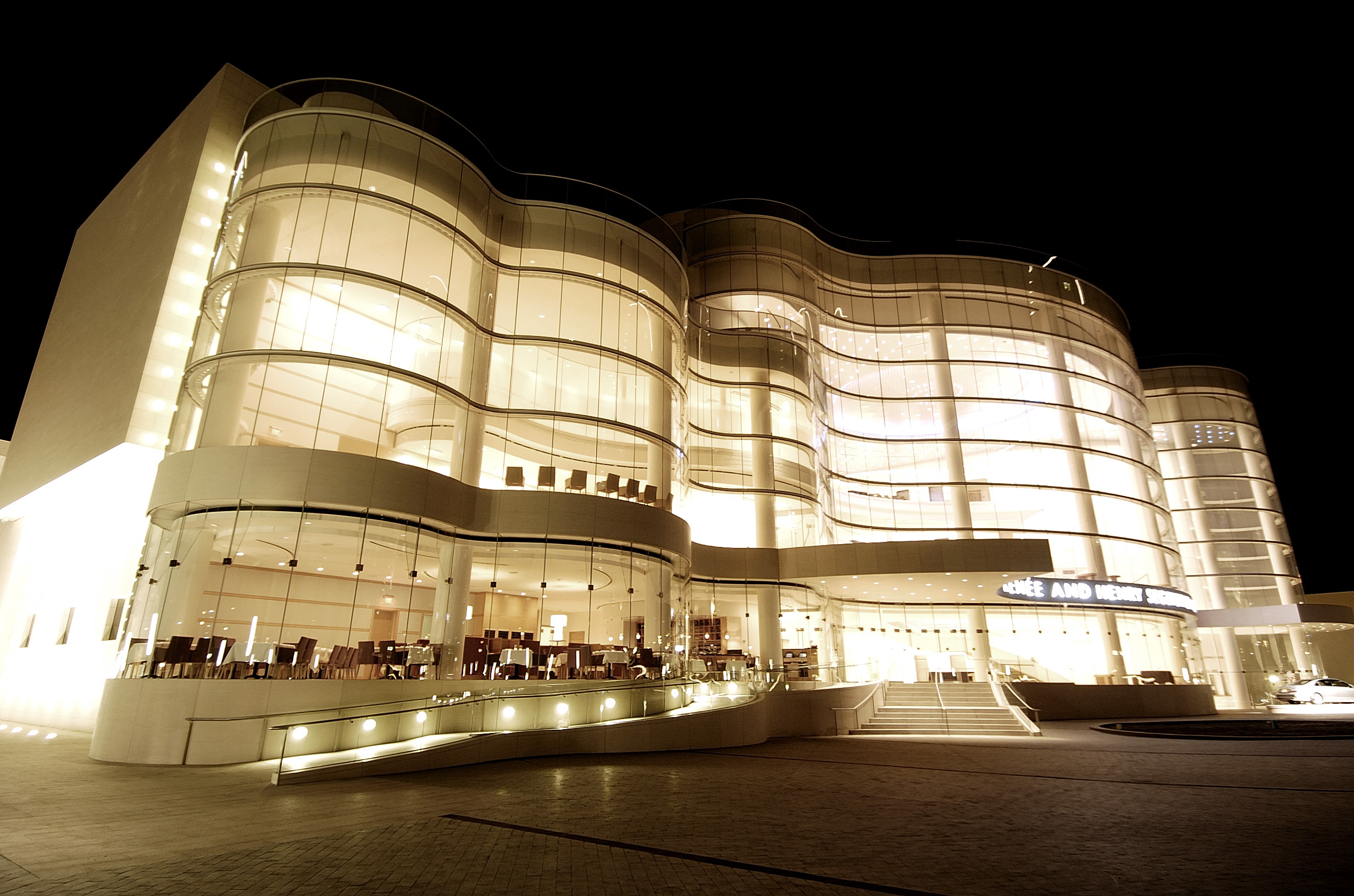 Night shot of the Segerstrom Concert Hall of the Segerstrom Center for the Arts. Located in Costa Mesa, Orange County, Southern California.